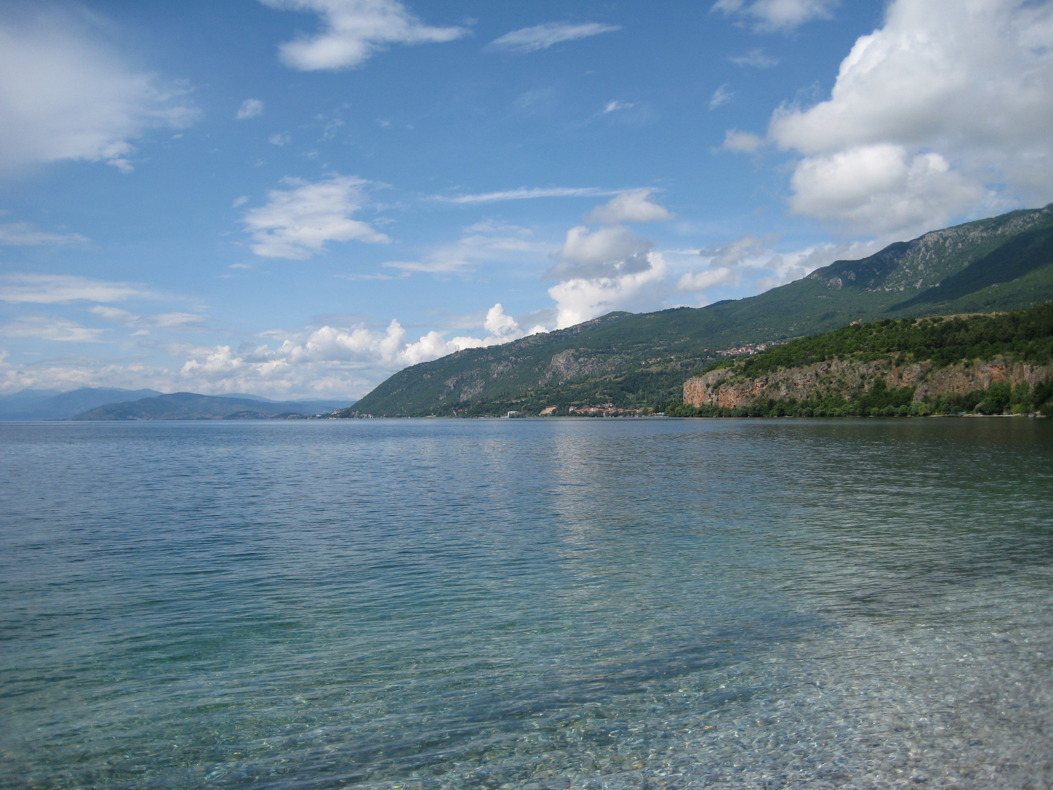 Lake Ohrid, Republic of Macedonia